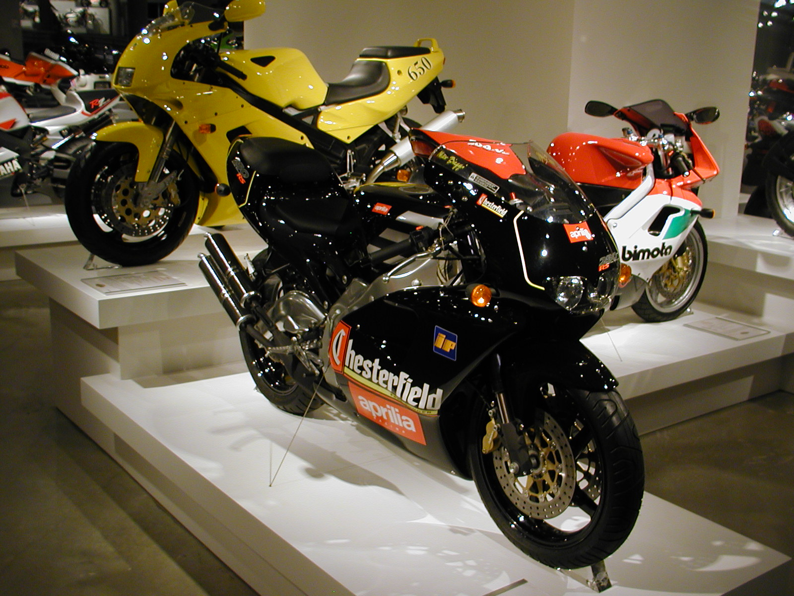 Barber Motorcycle Museum - Oct 22 2006 (85)Aprilia RS250